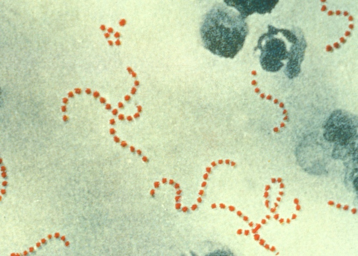 Photomicrograph of Streptococcus pyogenes bacteria, 900x Mag. A pus specimen, viewed using Pappenheim's stain. Last century, infections by S. pyogenes claimed many lives especially since the organism was the most important cause of puerperal fever and scarlet fever. Streptococci